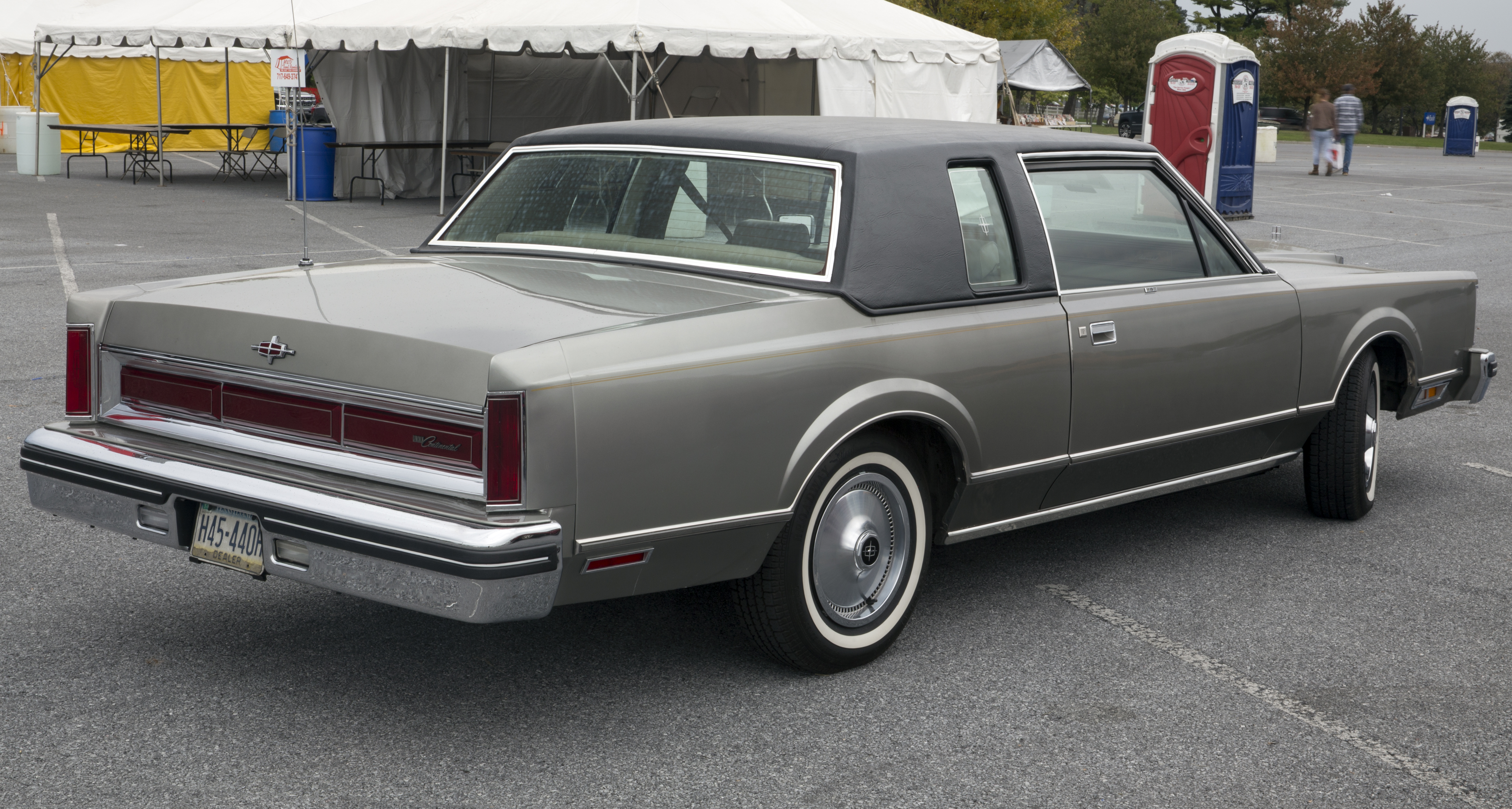 1980 Lincoln Continental two-door Coupe offered for sale in the flea market area at Hershey 2019. I did not realize how rare this car is until I realized that uploading it meant having to create a new category here. 351 2-barrel V8.